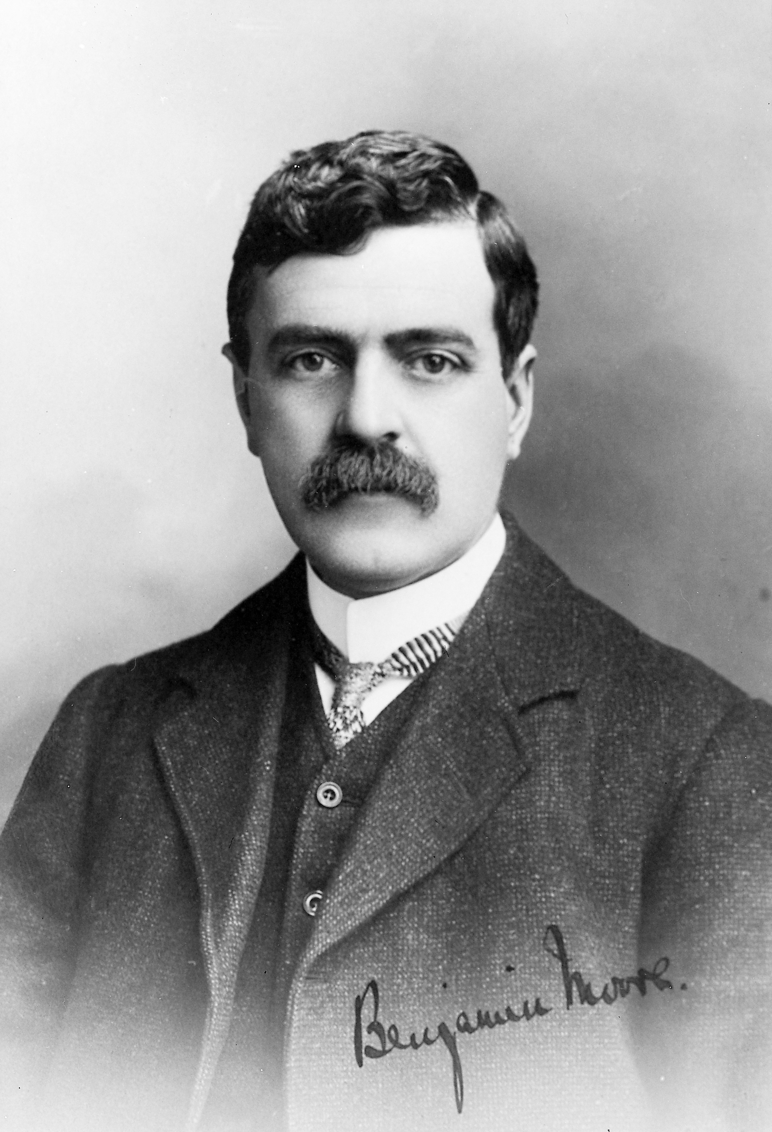 Portrait of Benjamin Moore. Wellcome Images Keywords: Benjamin Moore